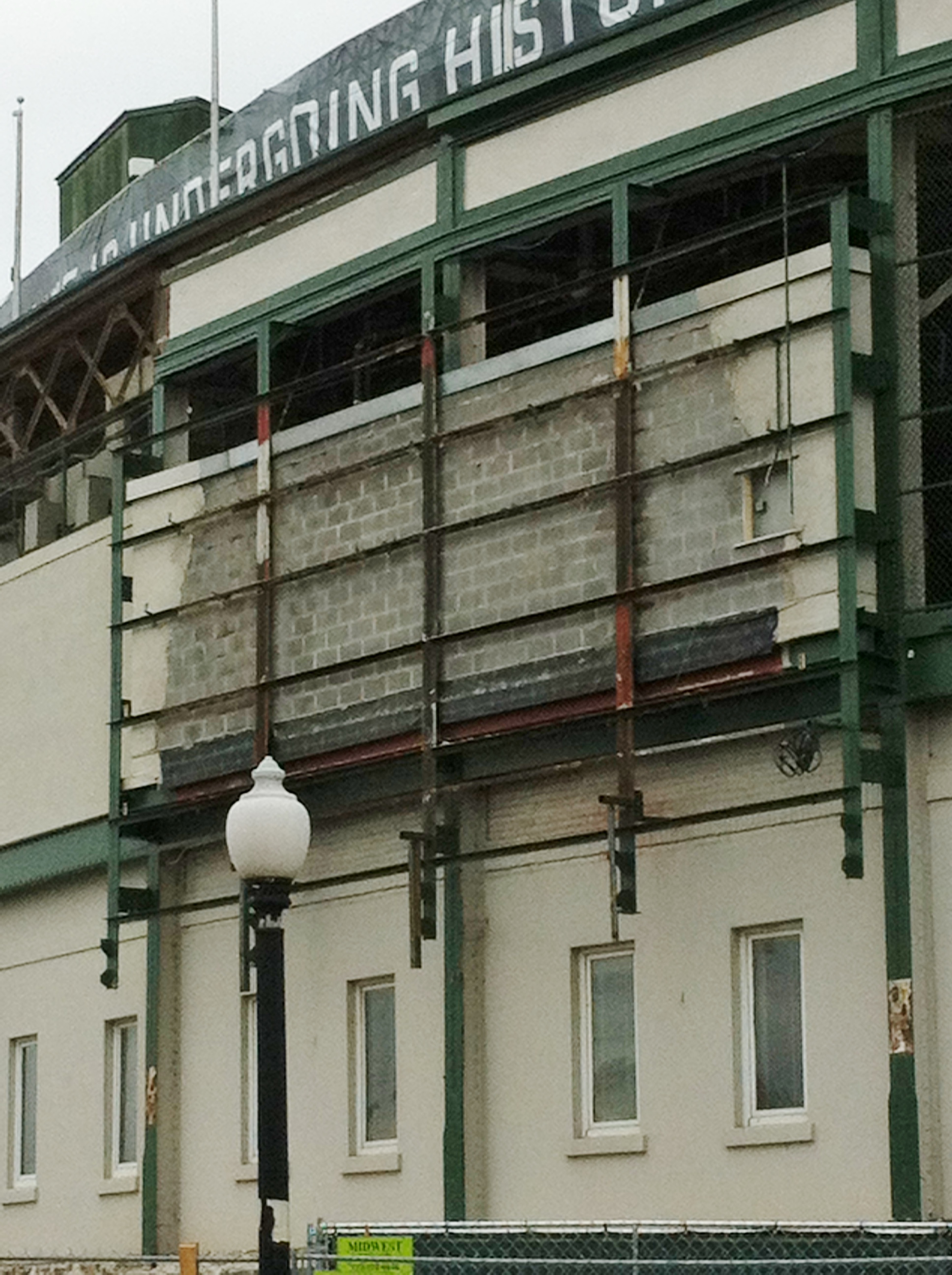 Installed in 1933, the historic Wrigley Field marquee has been removed for renovation and refurbishment during Phase Two of the 1060 Project.